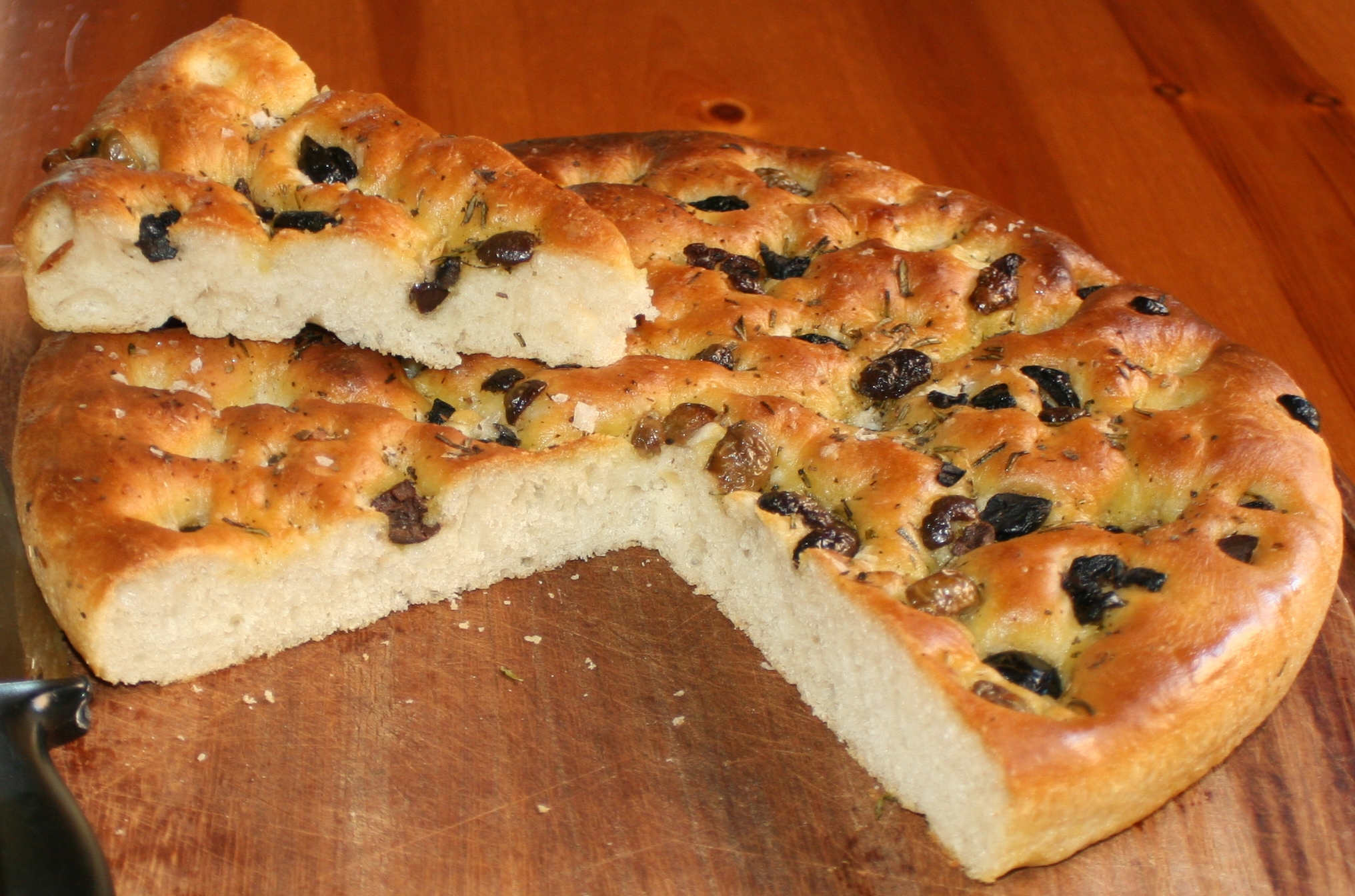 My homemade Focaccia with Olives, Rosemary and Sage.